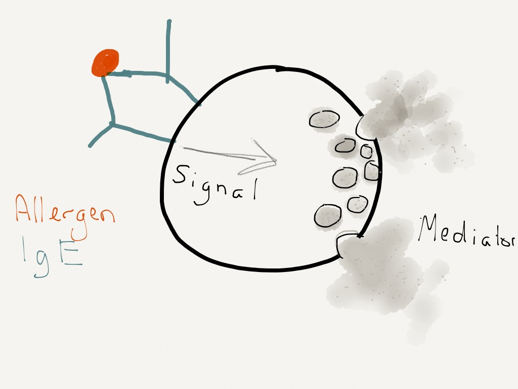 Showing the degranulation of a mast cell